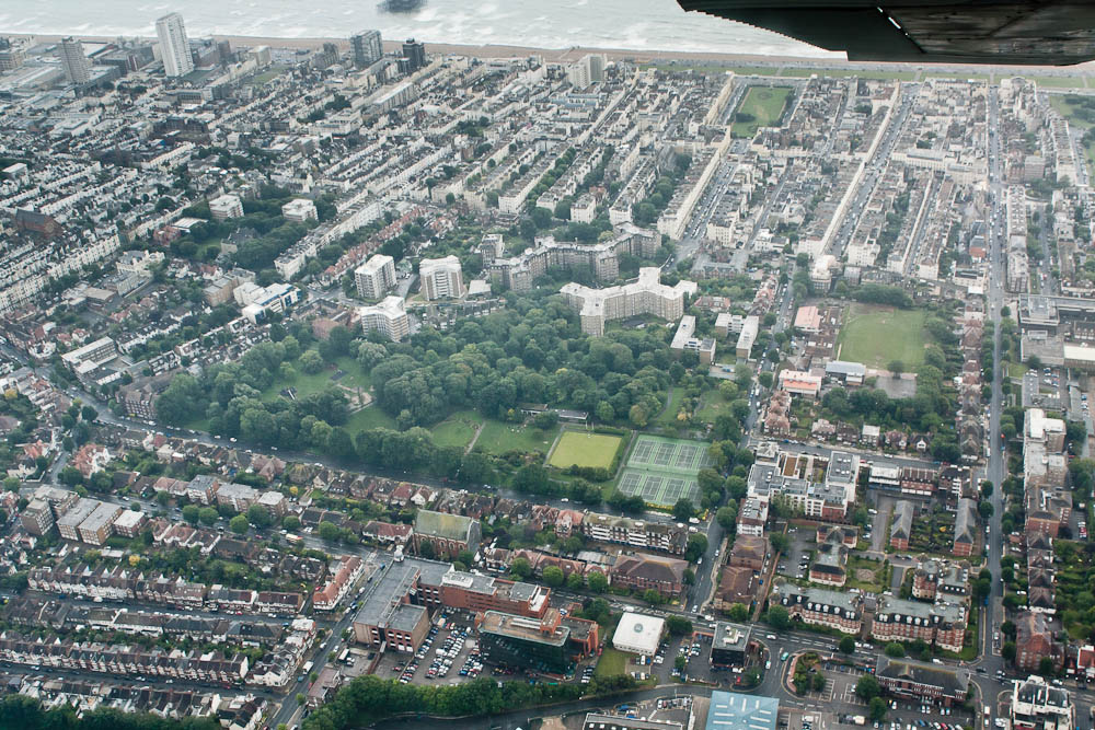 St. Ann's Well Gardens, Hove, East Sussex, England. Photograph taken from a light aeroplane; one of its wing is seen at the top of the image.